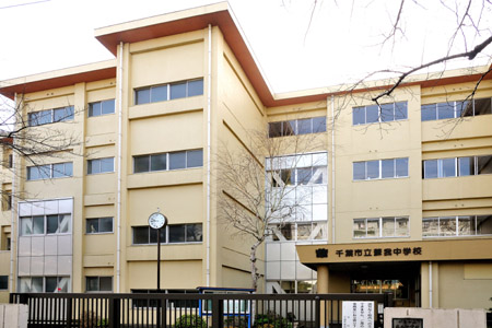 SOGAJHS